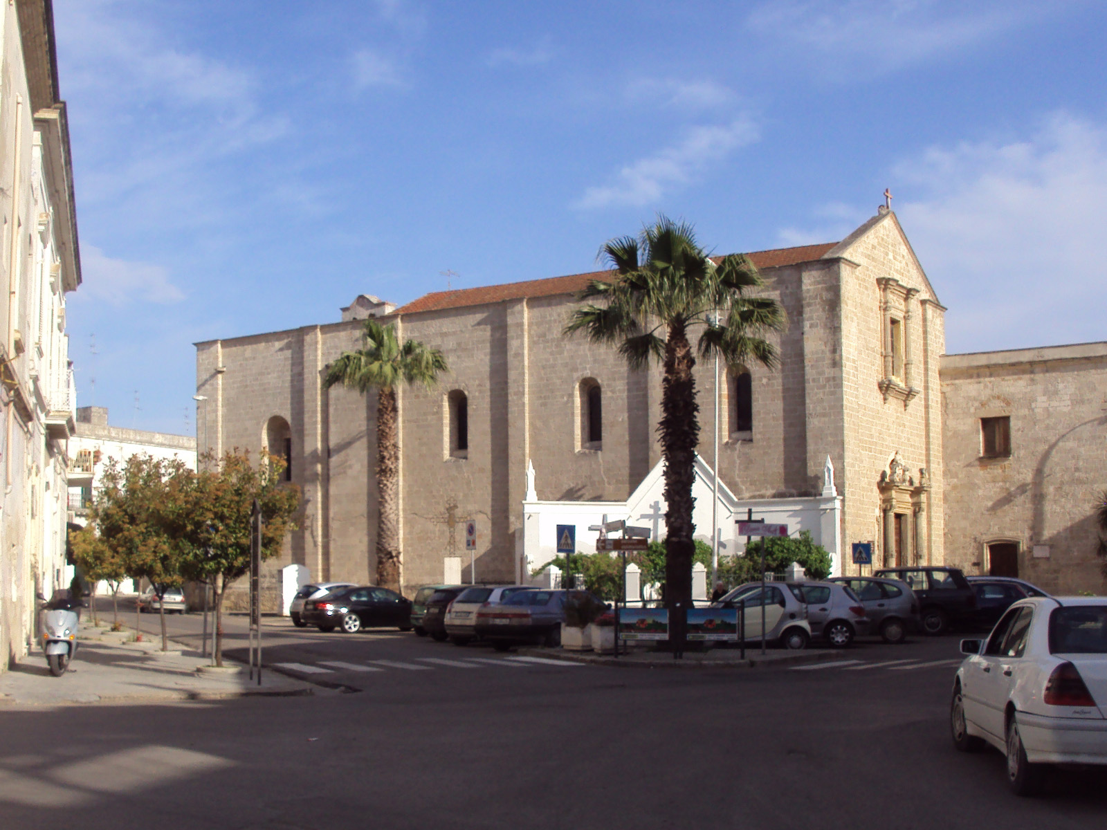 Church and convent of Santa Maria delle Grazie, Leverano, province of Lecce, Apulia, Italy (Date of photograph : 2012-05-06 17:58 - Cropped with Photoshop).